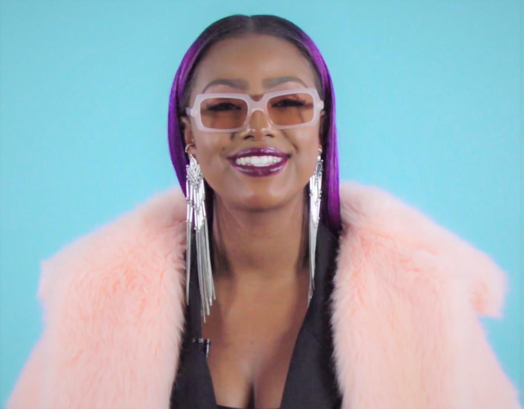 Justine Skye 17 Favorite Things on Cntrl+Alt+Delete.